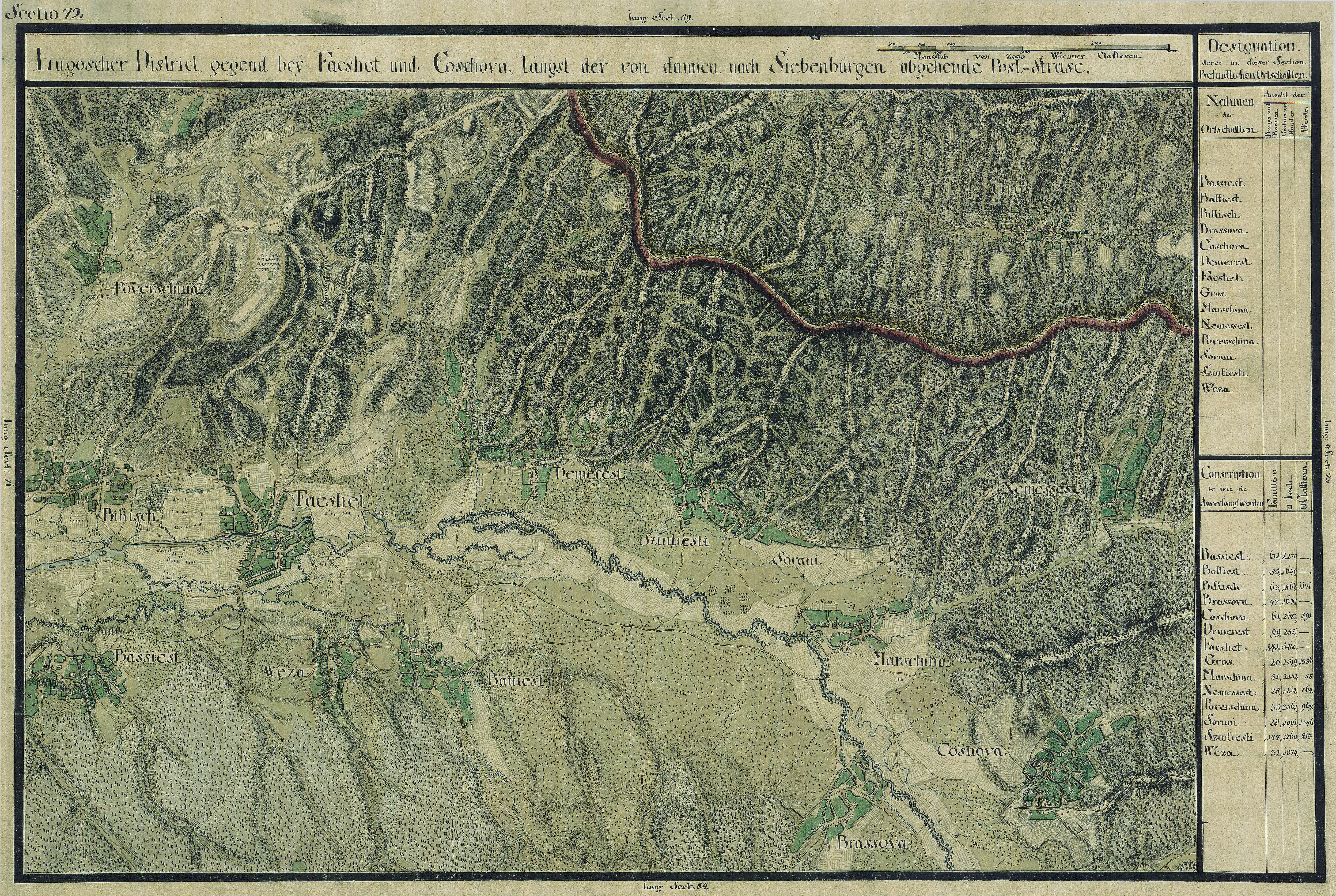 The Banat region in the cadastral maps: Josephinische Landesaufnahme, 1769-72. Josephinische Landaufnahme pg072